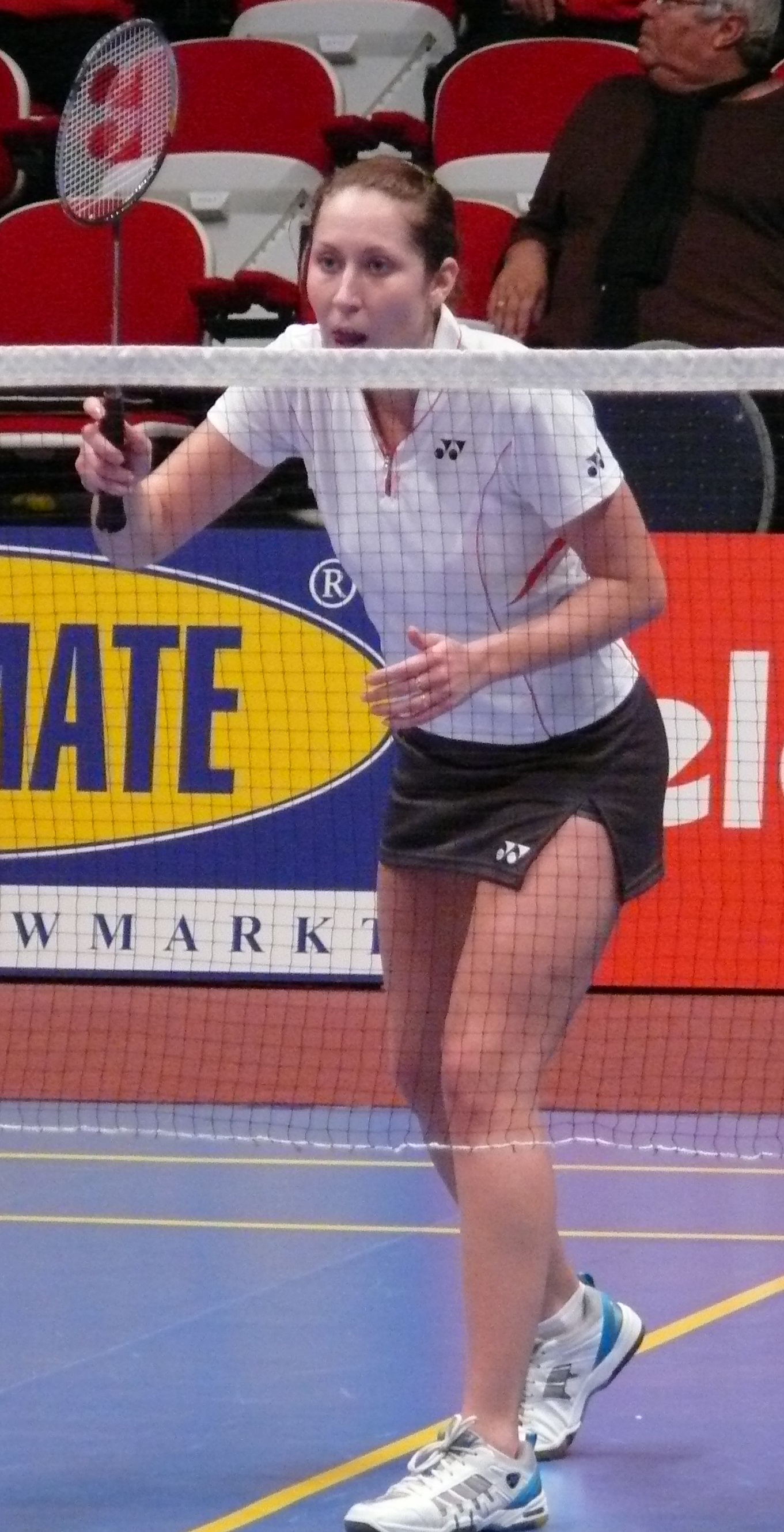 Valeria Sorokina (Russia)